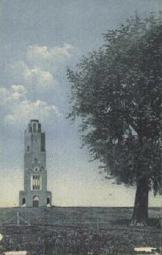 Bismarck tower in Jasna.